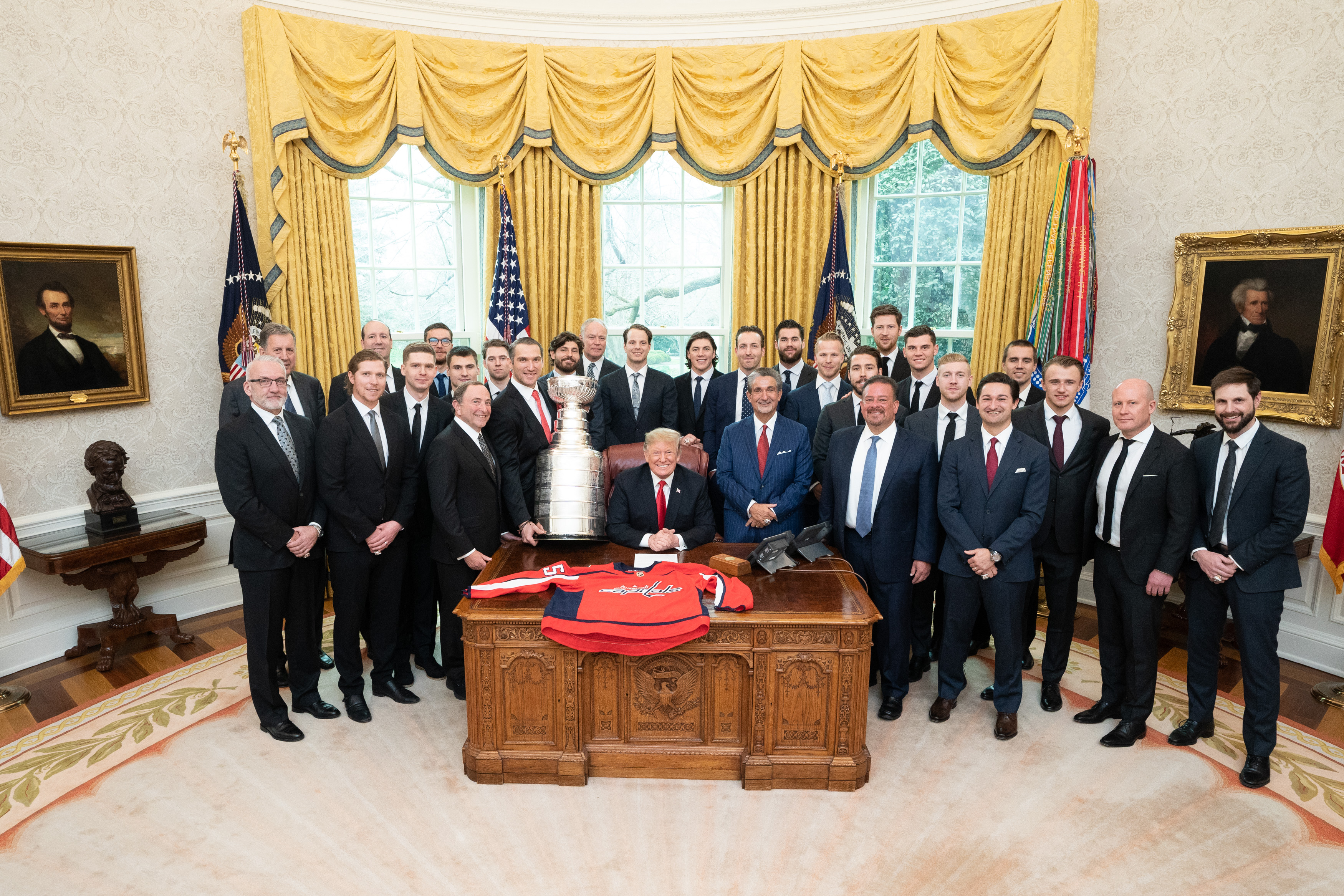 President Donald J. Trump meets with players from the 2018 Stanley Cup Champion Washington Capitals Monday, March 25, 2019, in the Oval Office of the White House. (Official White House Photo by Shealah Craighead)